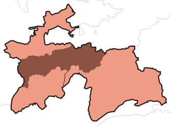 Nohiyahoi tobei Jumhurii (Region of Republican Subordination, former Karategin Oblast)